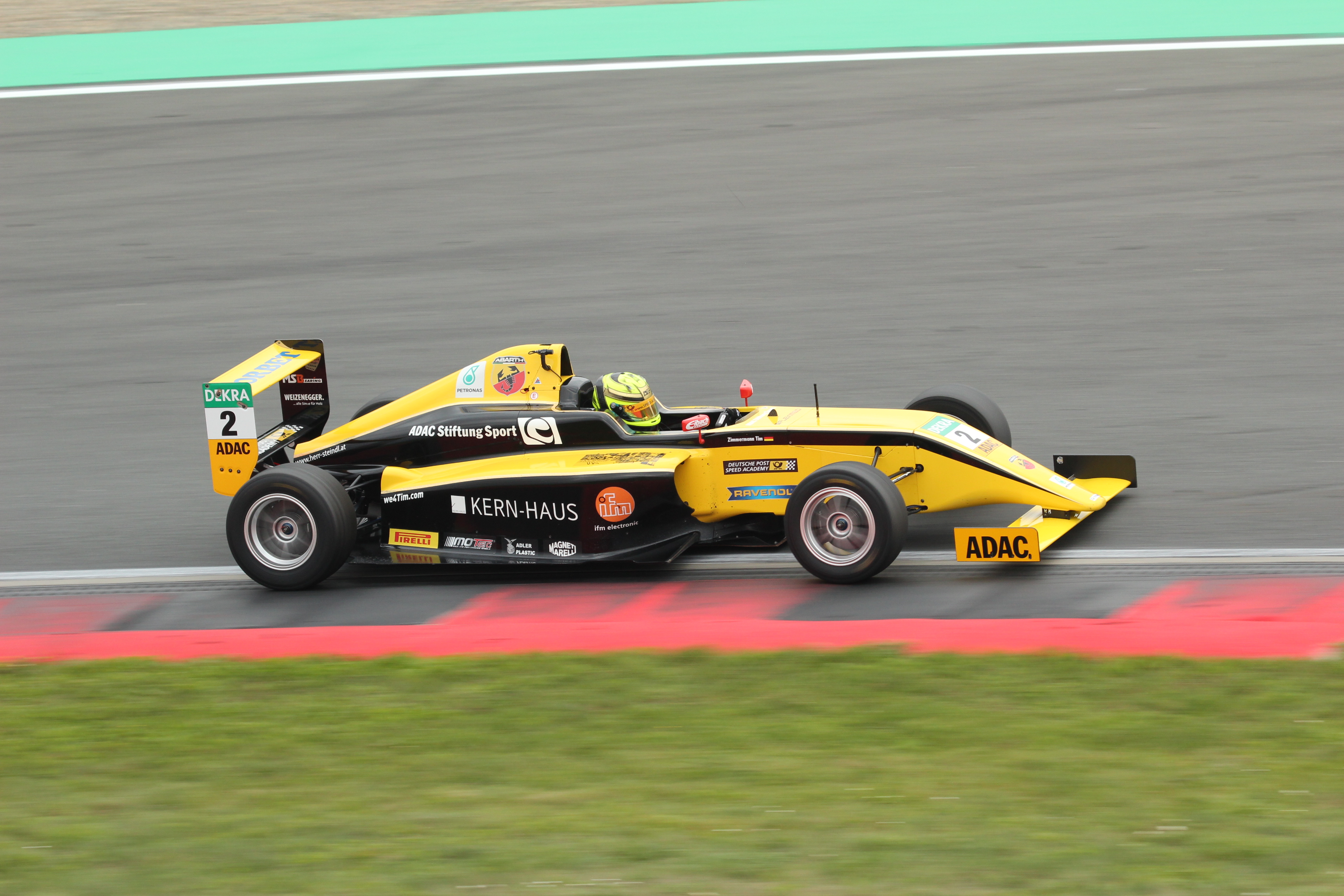 Tim Zimmermann at Oschersleben in 2015, German Formula 4 Championship